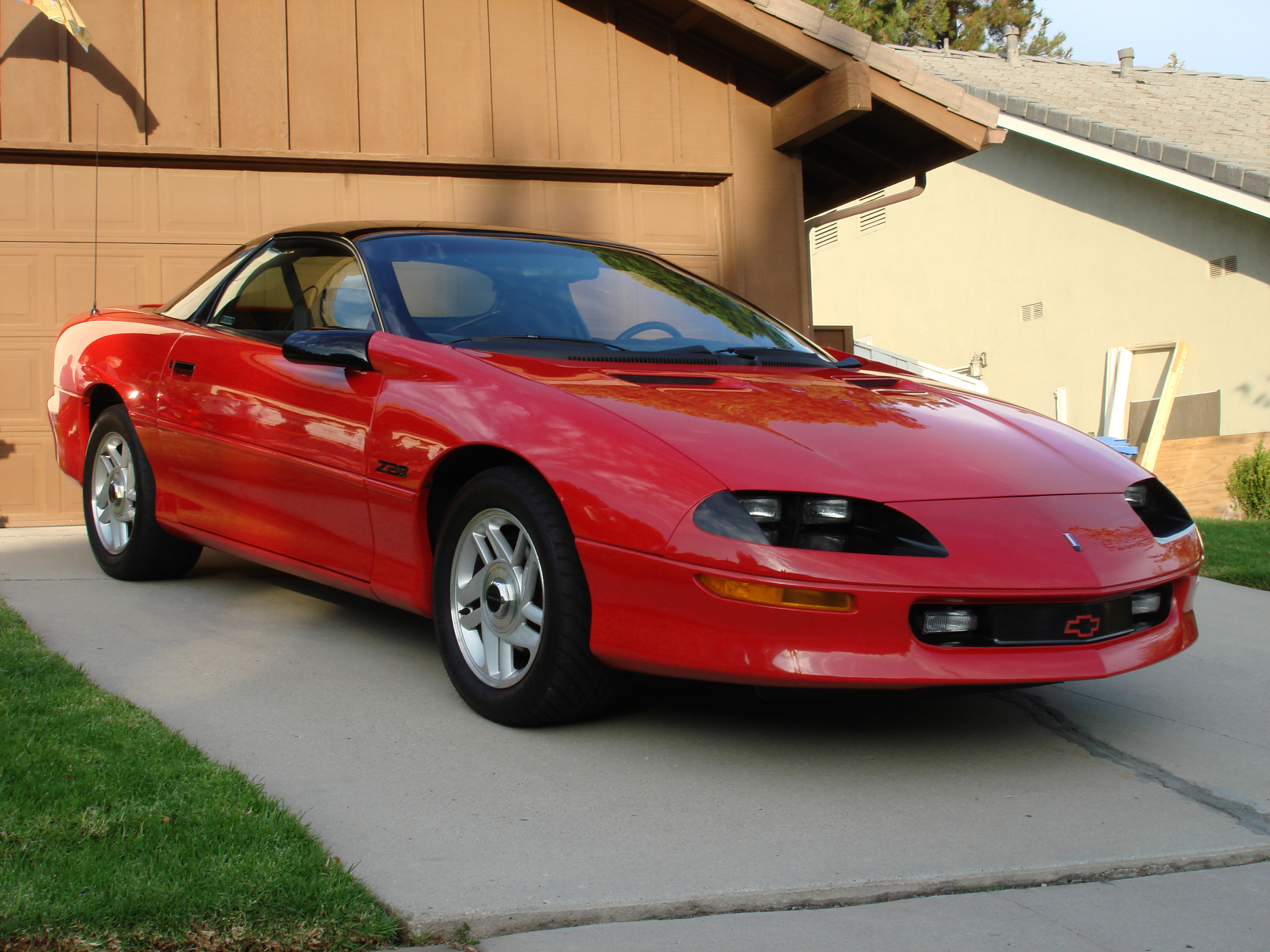 1993 Chevrolet Camaro Z28. Camera used was a Sony Cyber-shot DSC-W100.